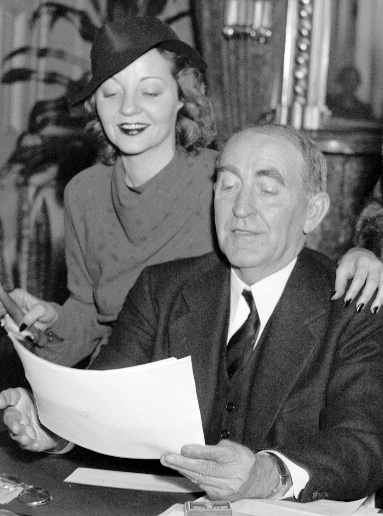 Photograph of Tallulah Bankhead with her father, William B. Bankhead, in his office in Washington, D.C.